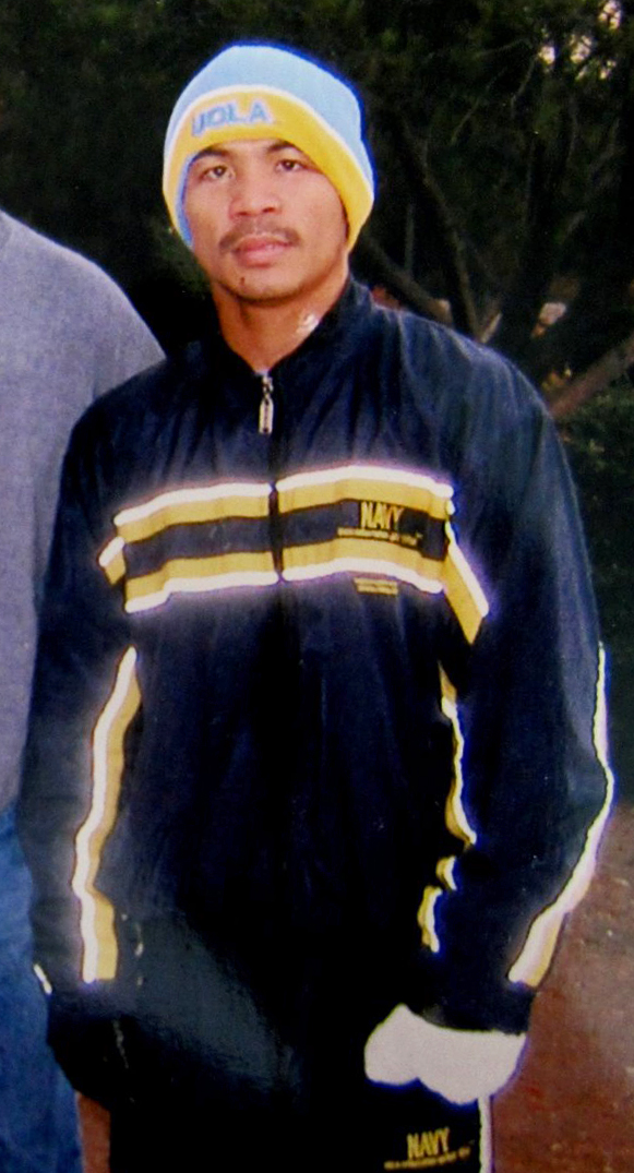 Manny Pacquiao, right before the Erik Morales fight. (original text)